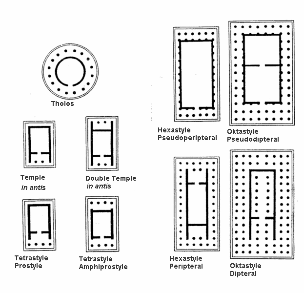 Plan types of ancient Greek temples